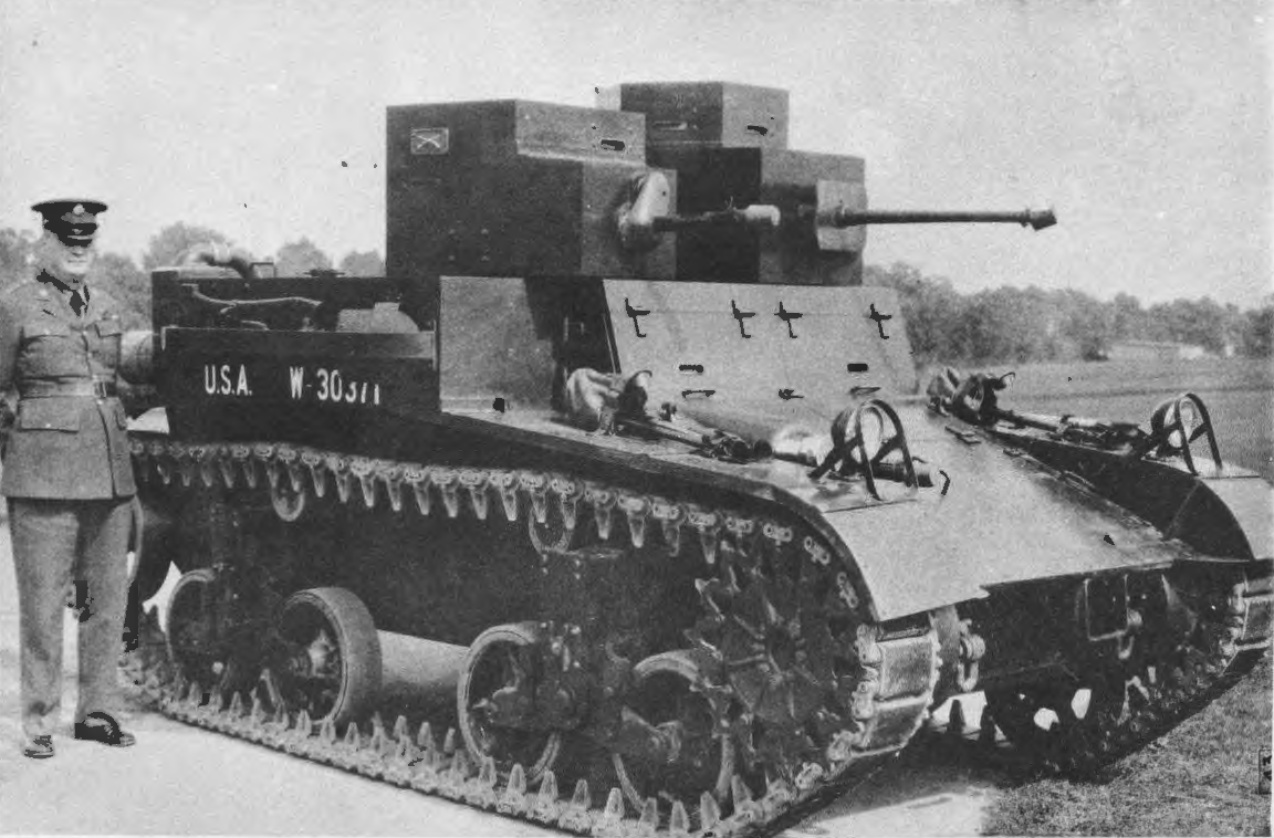 The Light Tank, M2A3, a U.S. Army light tank introduced in 1938. This was a modification of the twin-turreted M2A2 with a longer wheelbase and more widely spaced bogies to improve the ride.